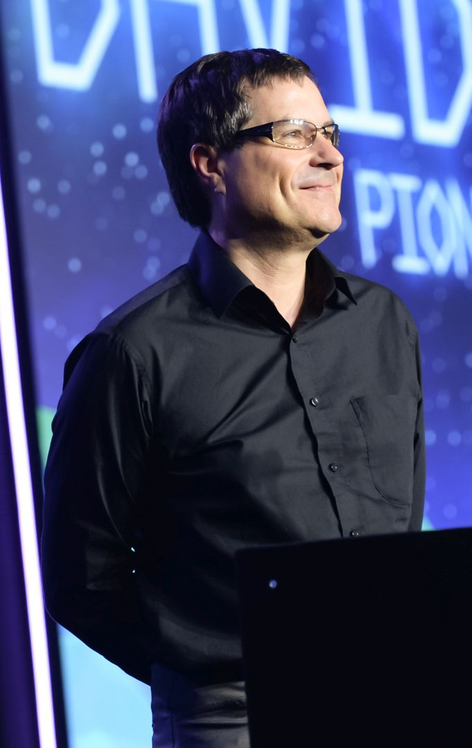 IGF Awards/GDCA